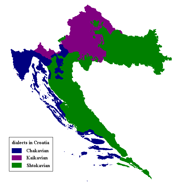 Map of the 3 main croatian dialects (in Croatia) at the end of the 20th century.